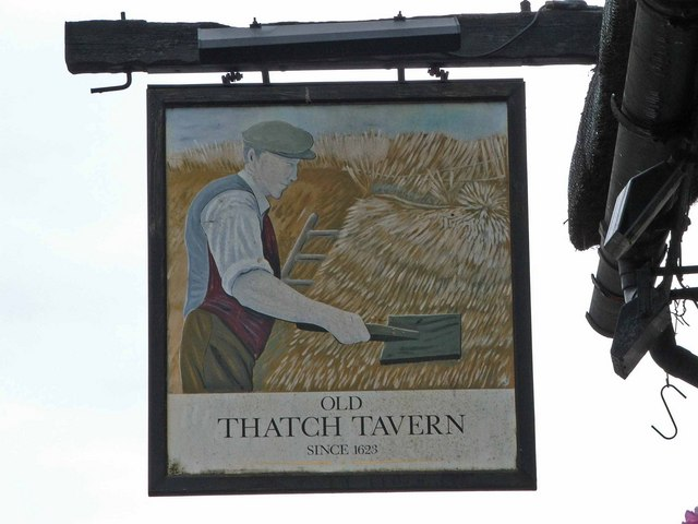 Old Thatch Tavern pubsign That paddle thing is for shaping and combing the thatch.